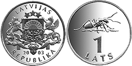 1 Lats Latvia - Ant Obverse: The large coat of arms of the Republic of Latvia, with the year 2003 inscribed below, is placed in the centre. The inscriptions LATVIJAS and REPUBLIKA, each arranged in a semicircle, are above and beneath the central motif, respectively. Reverse: An ant is featured in the upper part of the coin. The numeral 1, with the inscription LATS in a semicircle beneath it, is centred in the lower part. Edge: Two inscriptions LATVIJAS BANKA (Bank of Latvia), separated by rhombic dots.